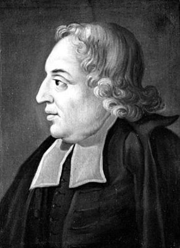 Alessandro Guidi (1650-1712), italian poet and playright.